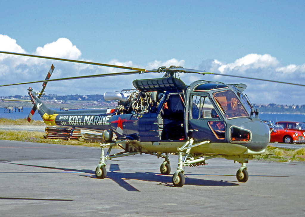 Westland Wasp HAS.1 (AH-12A) 244 of the Royal Dutch Navy at RNAS Portland in 1967